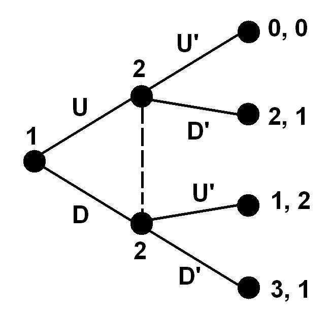 Extensive form game 2 Treborbassett 20:51, 13 Mar 2005 (UTC)